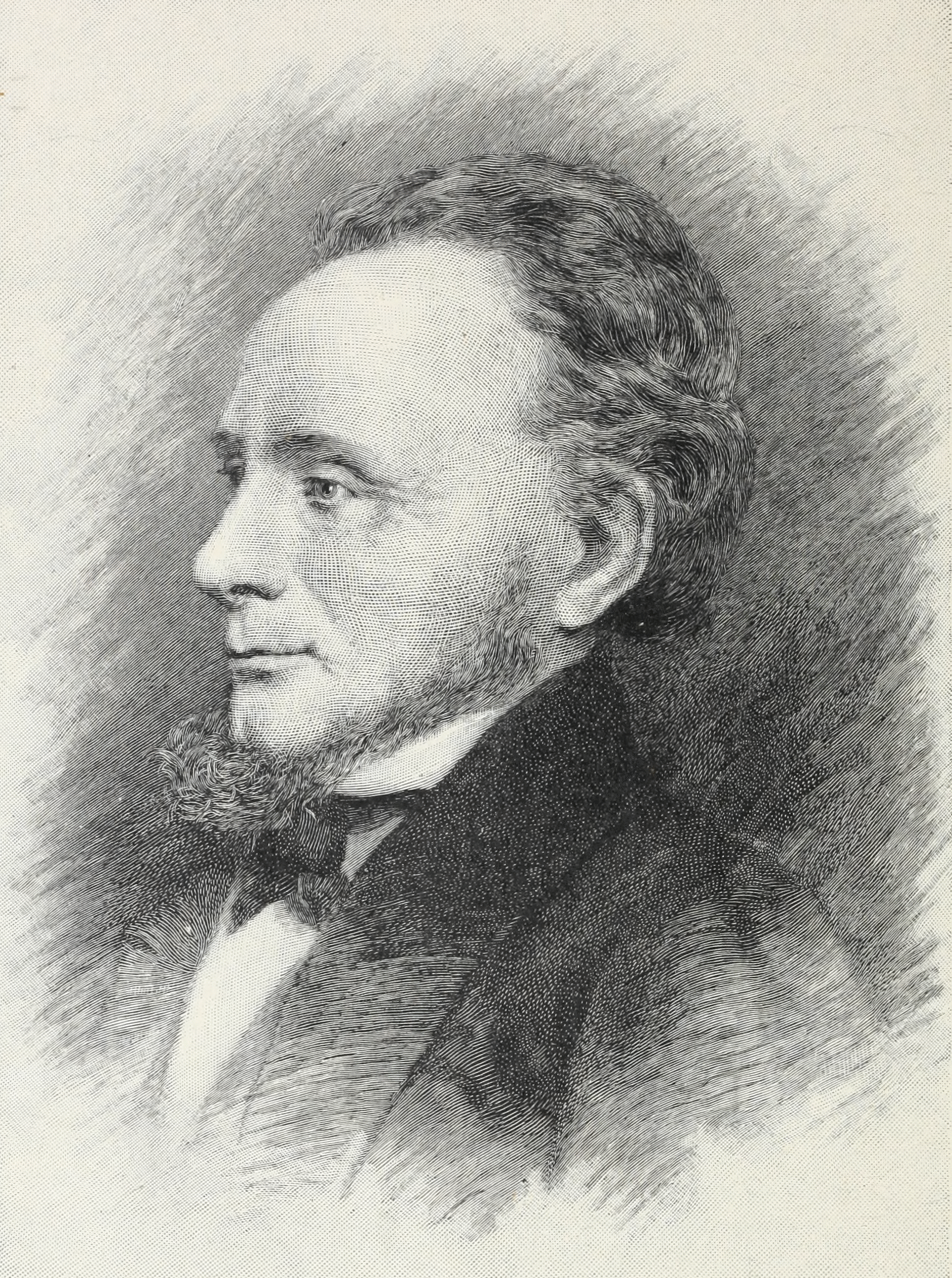 Nathaniel J. Wyeth And The Struggle For Oregon (With Portrait). [Harper's new monthly magazine. / Volume 85, Issue 510, November, 1892]